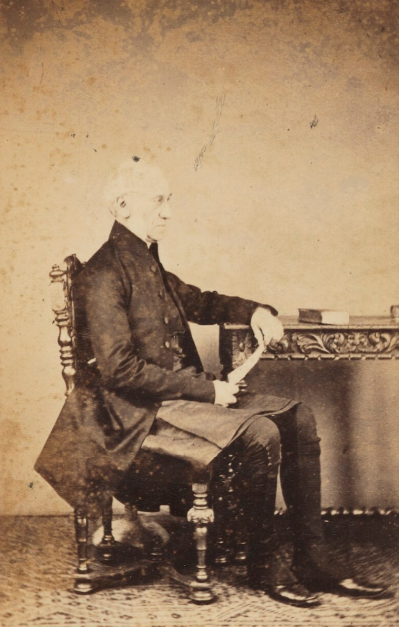 Carte de visite portrait of Thomas Thorp (1797–1877), Archdeacon of Bristol.